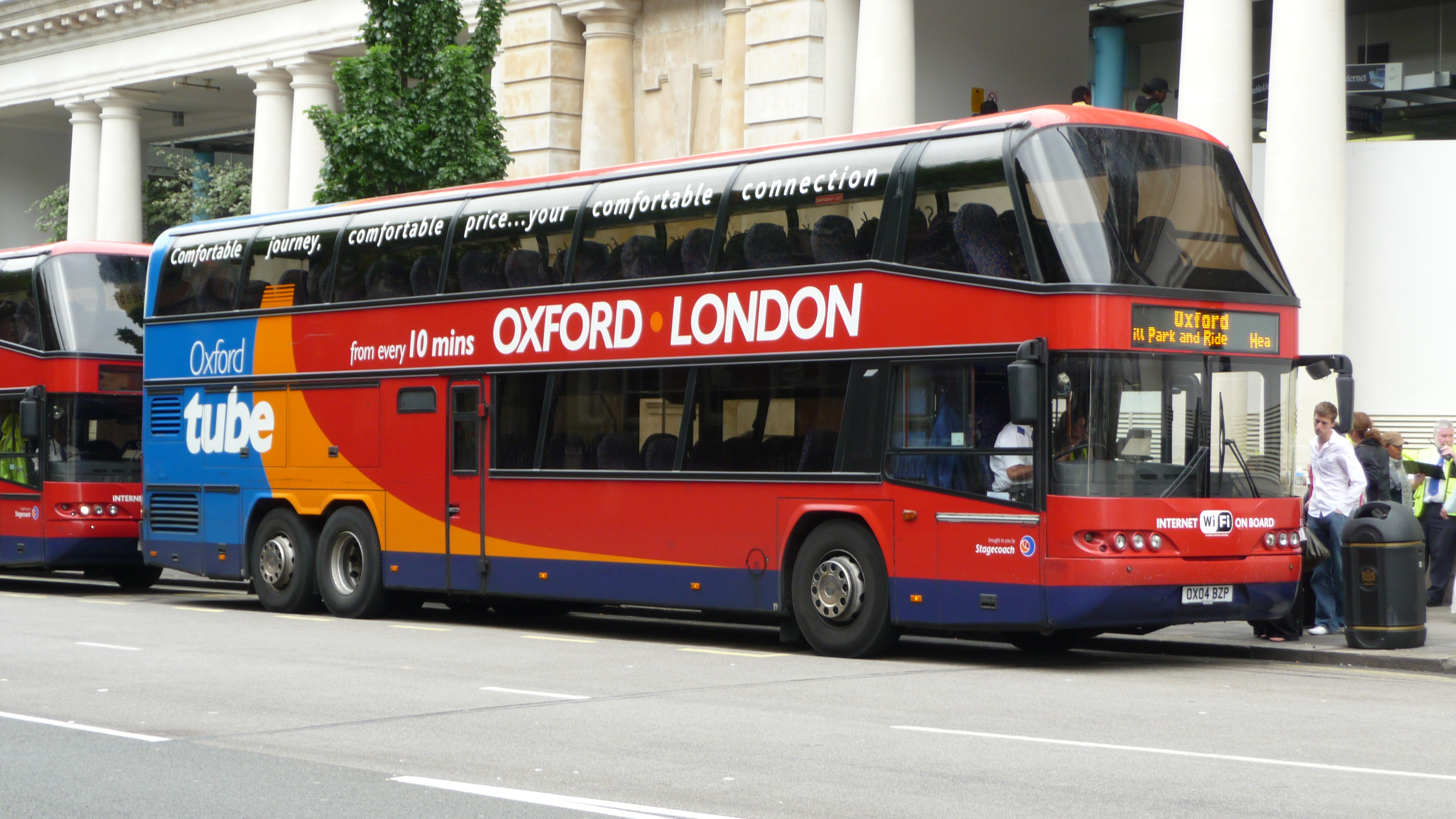 A Stagecoach in Oxfordshire Oxford Tube coach in Buckingham Palace Road, Victoria, London. It is a Neoplan Skyliner, registration mark OX04 BZP, fleet number 50124.